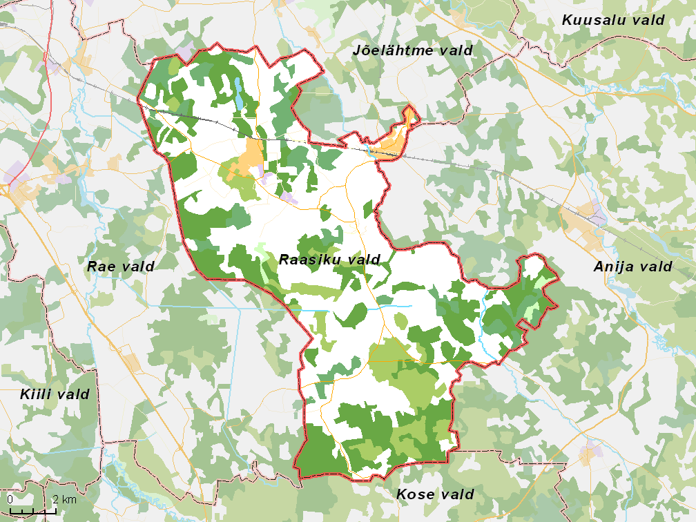 Map of municipality in Estonia